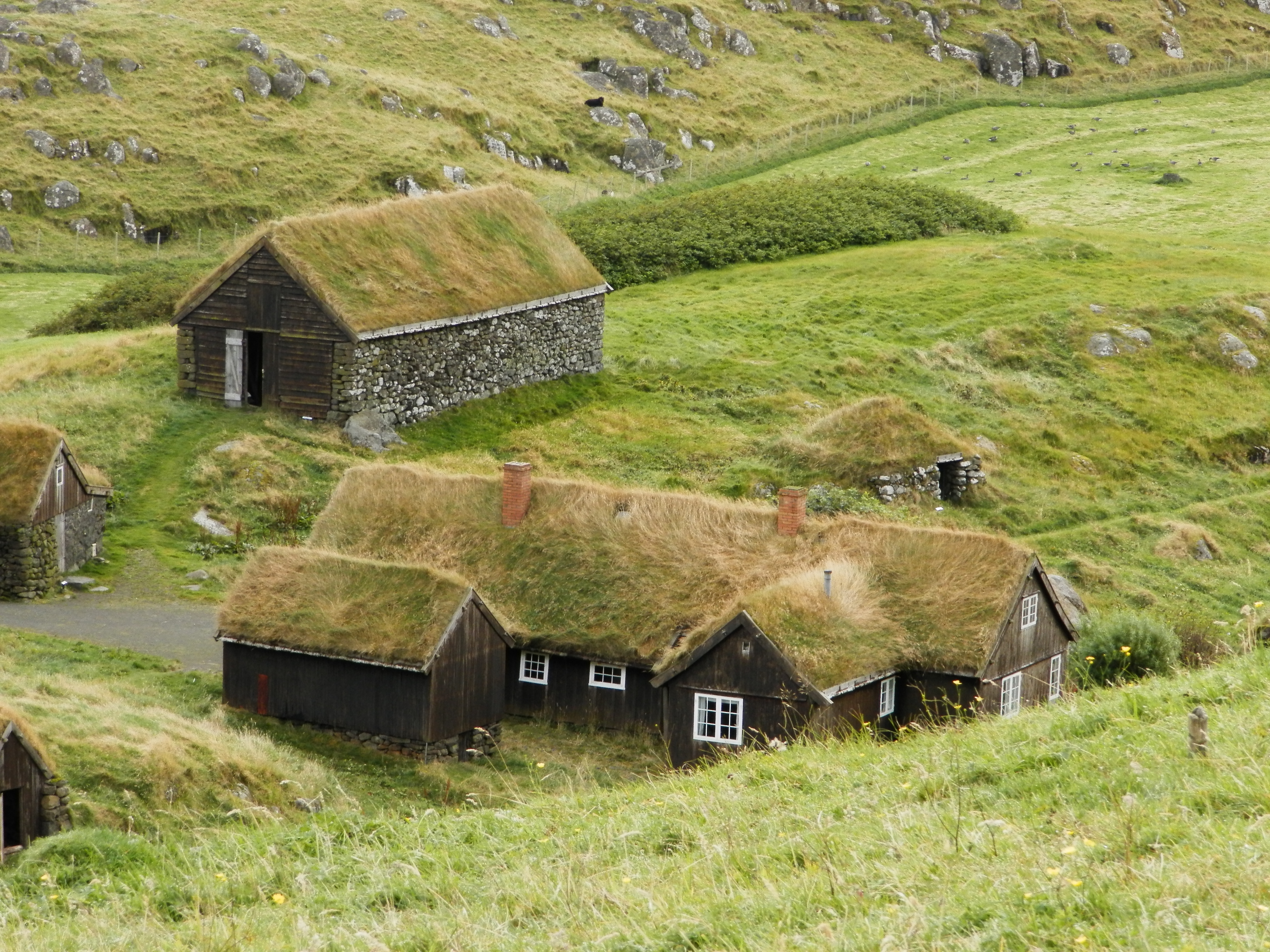 Hoyvíksgarður in Hoyvík, Faroe Islands. These buildings are now an open air museum.